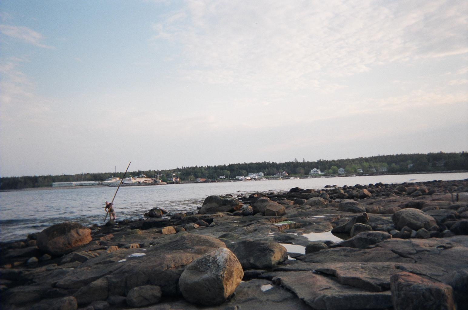 Rocky shore of Prospect Harbor, Maine, USA.